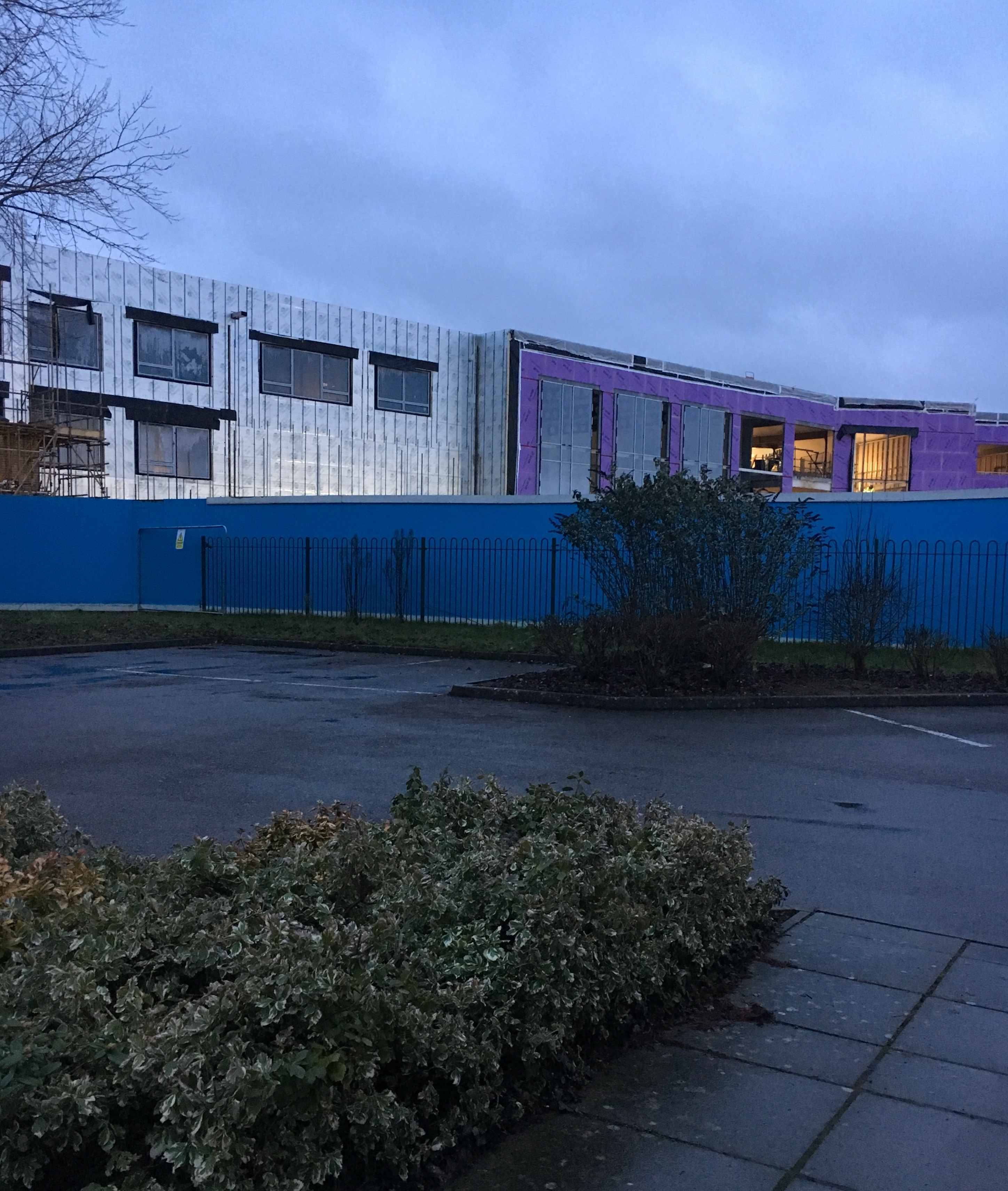 Photo of the New Build during construction, Thursday 2nd February 2017.